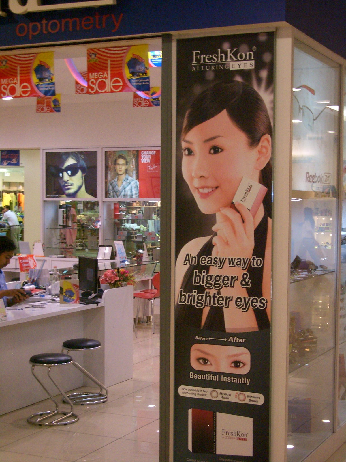 An eyeglass/contact lens shop in a shopping mall in Melaka